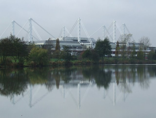 The LG Arena At the National Exhibition Centre.